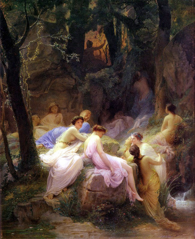 Nymphs Listening To The Songs of Orpheus